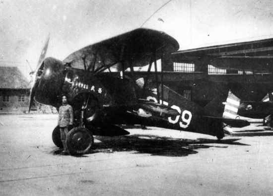 Catalog #: 00064783 Manufacturer: Curtiss Designation: Model 68 Official Nickname: Hawk III Notes: For export Repository: San Diego Air and Space Museum Archive